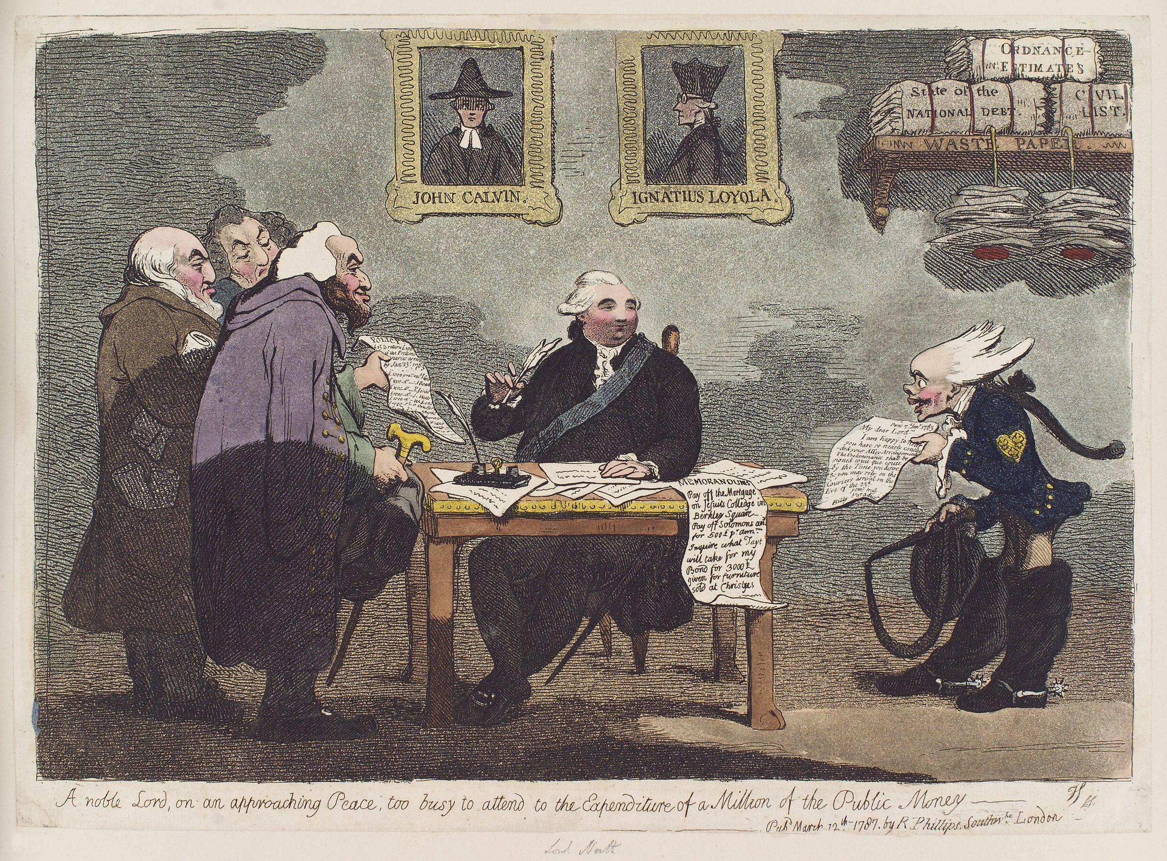 A noble lord, on an approaching peace, too busy to attend to the expenditure of a million of the public money, by James Gillray (died 1815), published 1787. All images in this batch have been confirmed as author died before 1939 according to the official death date listed by the NPG.